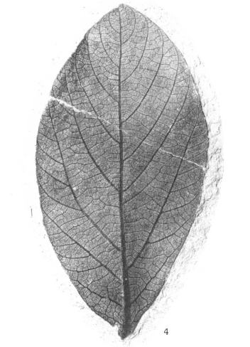 Republica hickeyi Wolfe et Wehr plate 16 fig 4; Holotype leaf part specimen. Ypresian, Latest Early Eocene; Tom Thumb Tuff member, Klondike Mountain Formation, Republic, Washington, U.S.A. United States National Museum, Washington, DC USNM 32697A